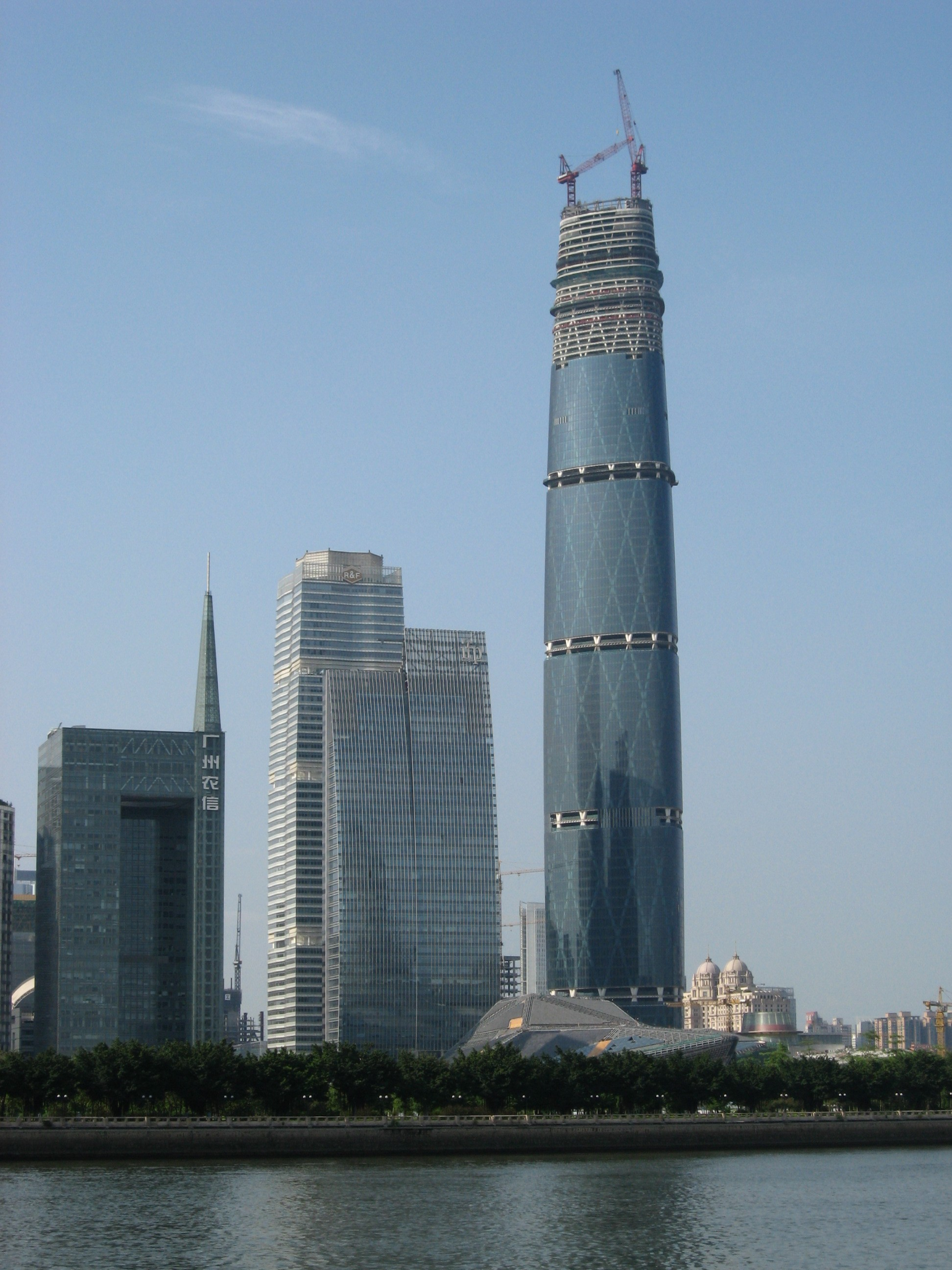 Guangzhou International Finance Center